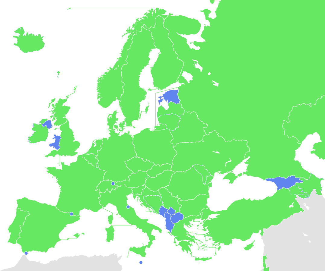 Based on File:UEFA members Champs League group stage.gif, File:BlankMap-World-UK.png (itself based on File:BlankMap-World-v5.png) Serbian FA is the successor association but Montenegro is not. Non of the Montenegrin team was qualified either before 2006.